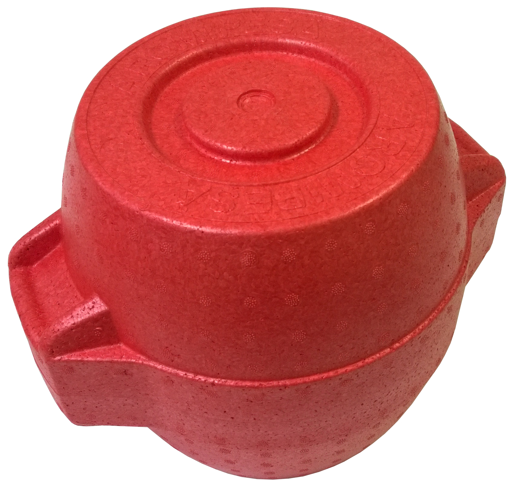 Aromabase, kitchenware.